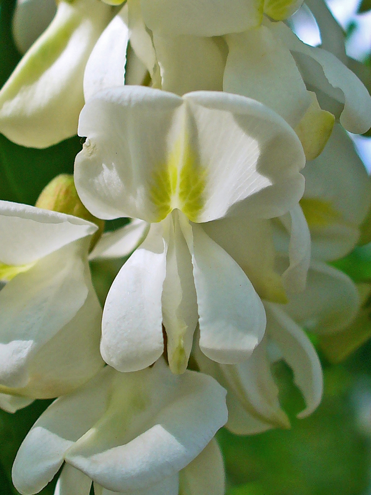 Robinia pseudoacacia, Fabaceae, Black Locust, False Acacia, flower. Karlsruhe, Germany.